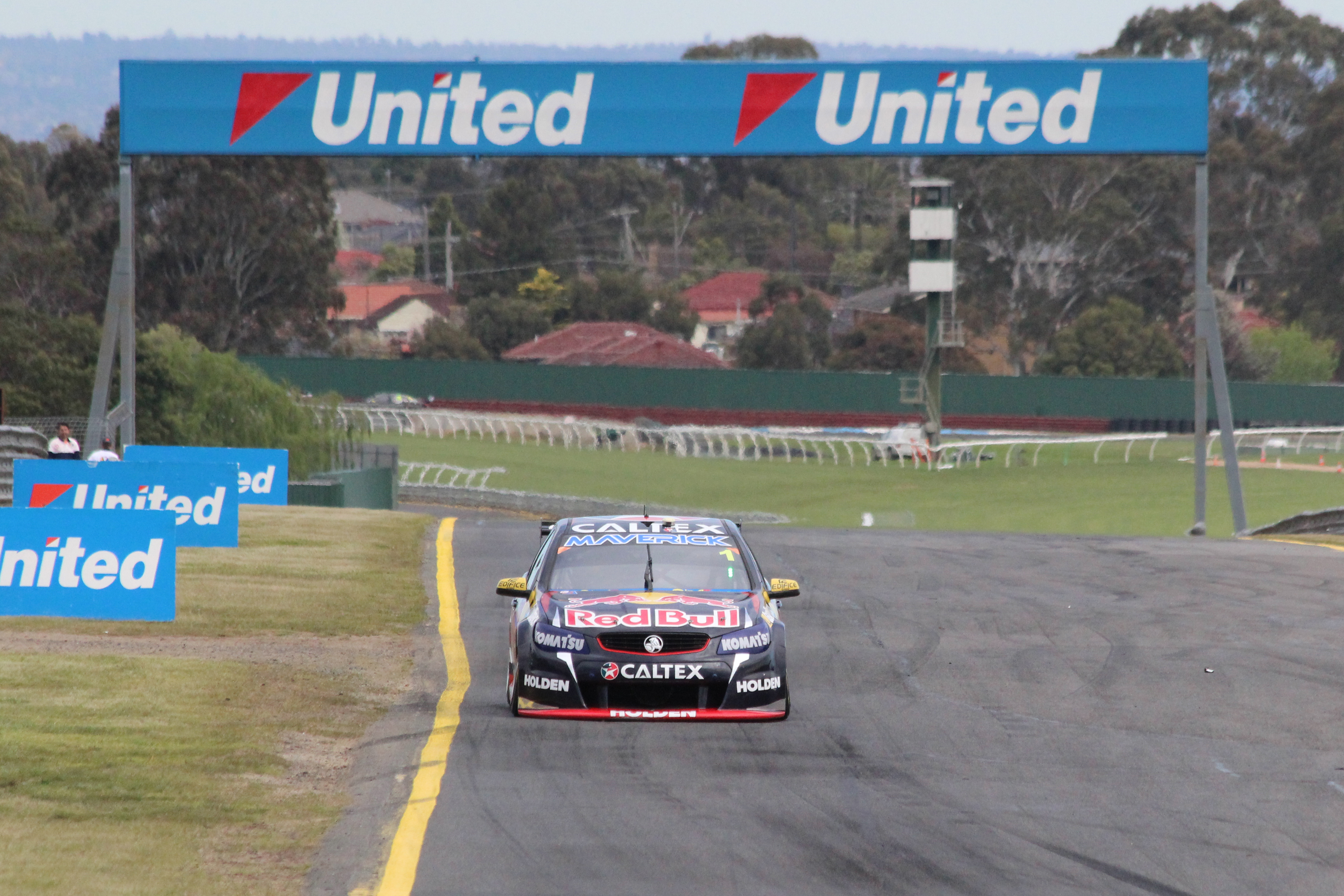 Paul Dumbrell leads during the co-driver qualifying race at the 2015 Wilson Security Sandown 500.